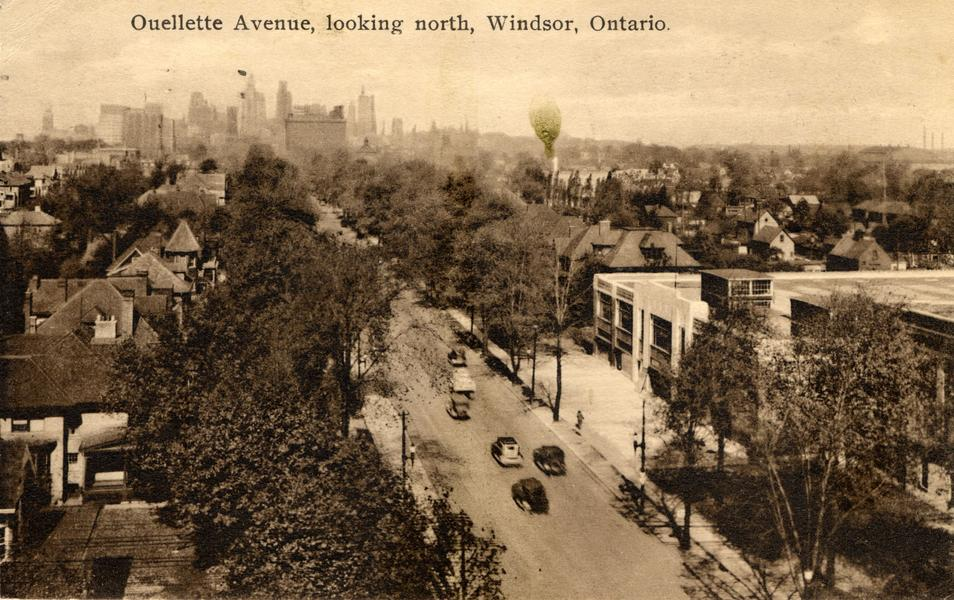 Postmarked 1937; aerial view of Ouellette Avenue looking north from Erie Street; on the east side of Ouellette Avenue, the Masonic Temple (partially hidden by trees) can be seen; north of it is a white building built in 1929 and designed by R. J. Davies; originally known as the Martin Marketorium, in 1944 it became the HMCS Hunter (naval reserve) building, owned by the Department of National Defense; the card is addressed to Mr. & Mrs. T. E. Wayte